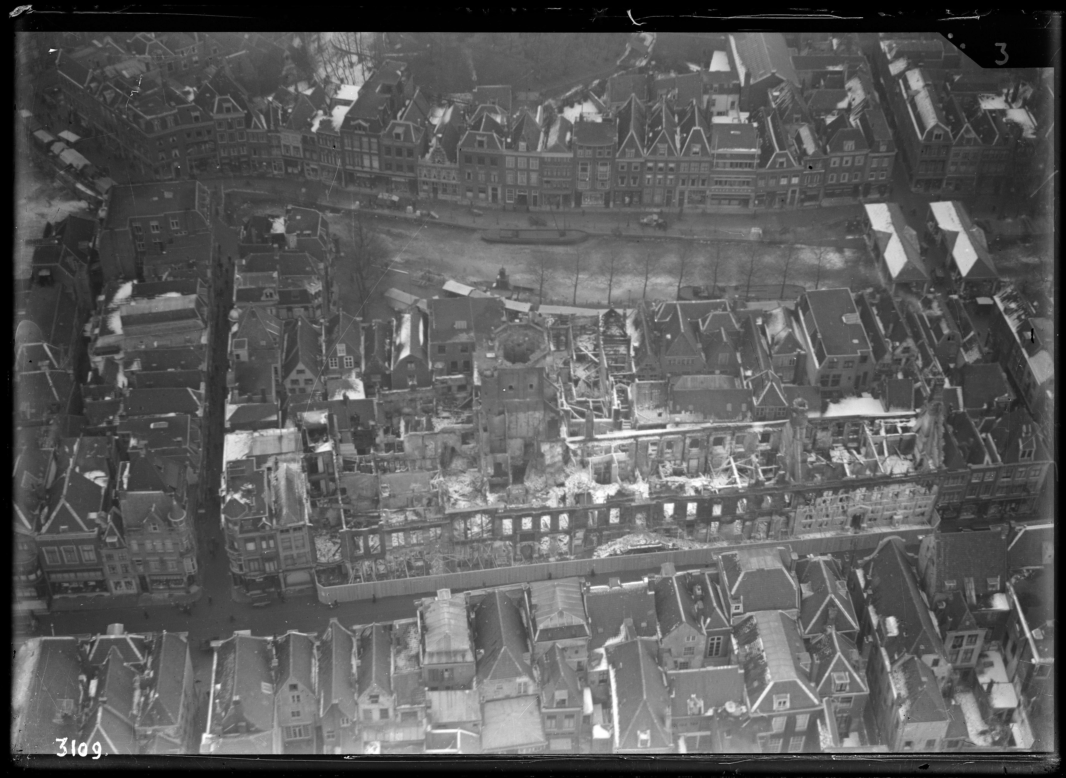 Aerial photograph of Leiden, The Netherlands